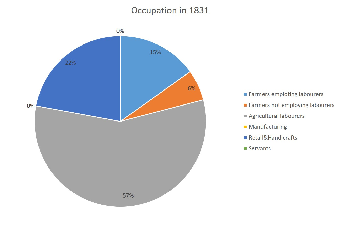 Industry Statistics